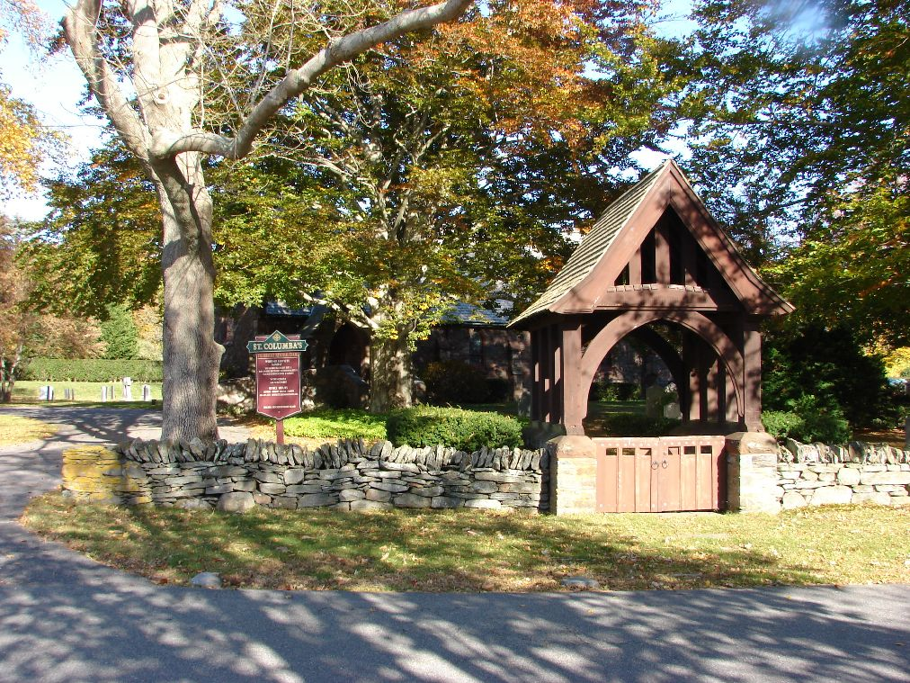 Photo of St. Columba's Chapel lych-gate, Middletown, RI